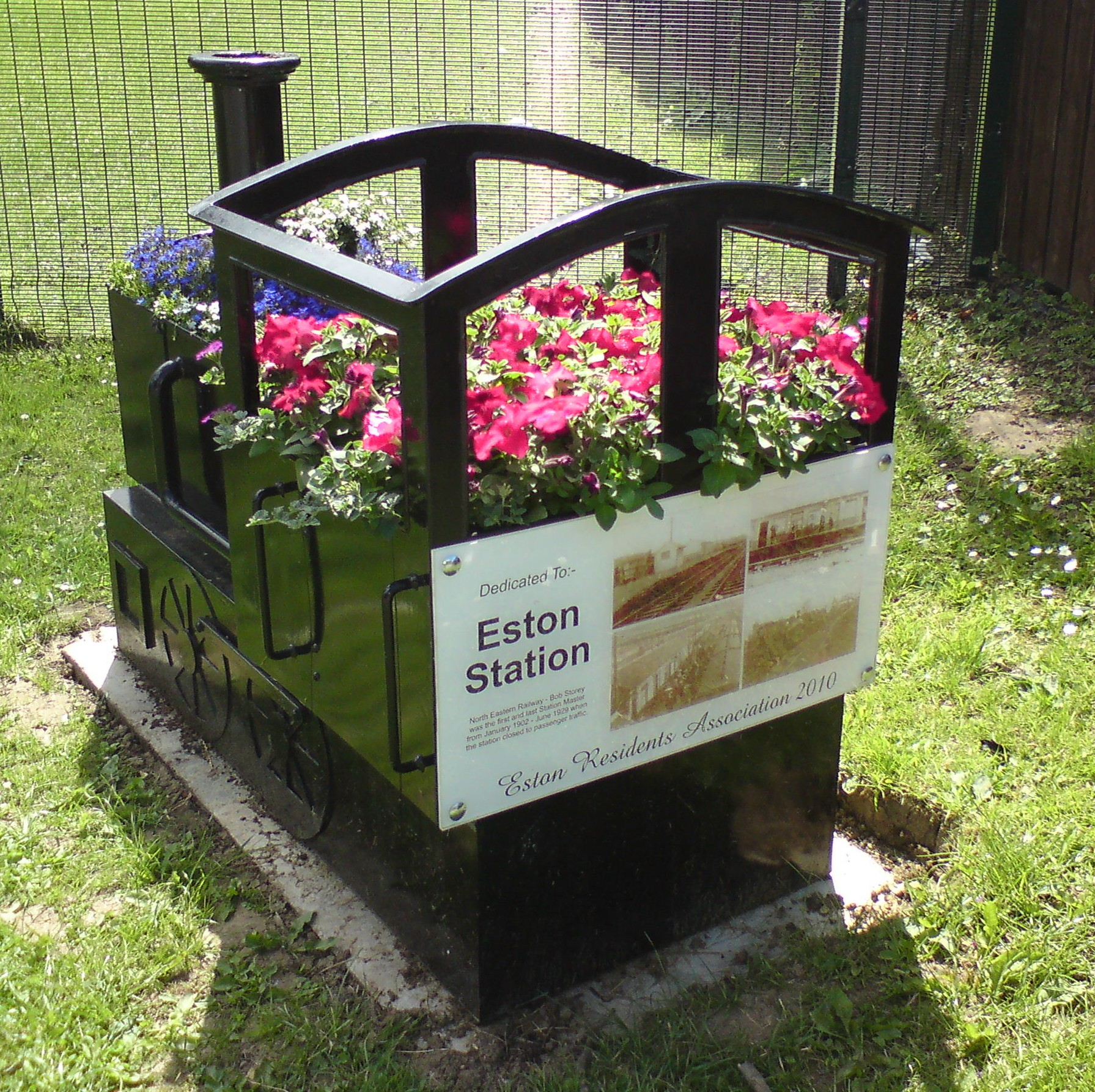 Dedicated to Eston Station.